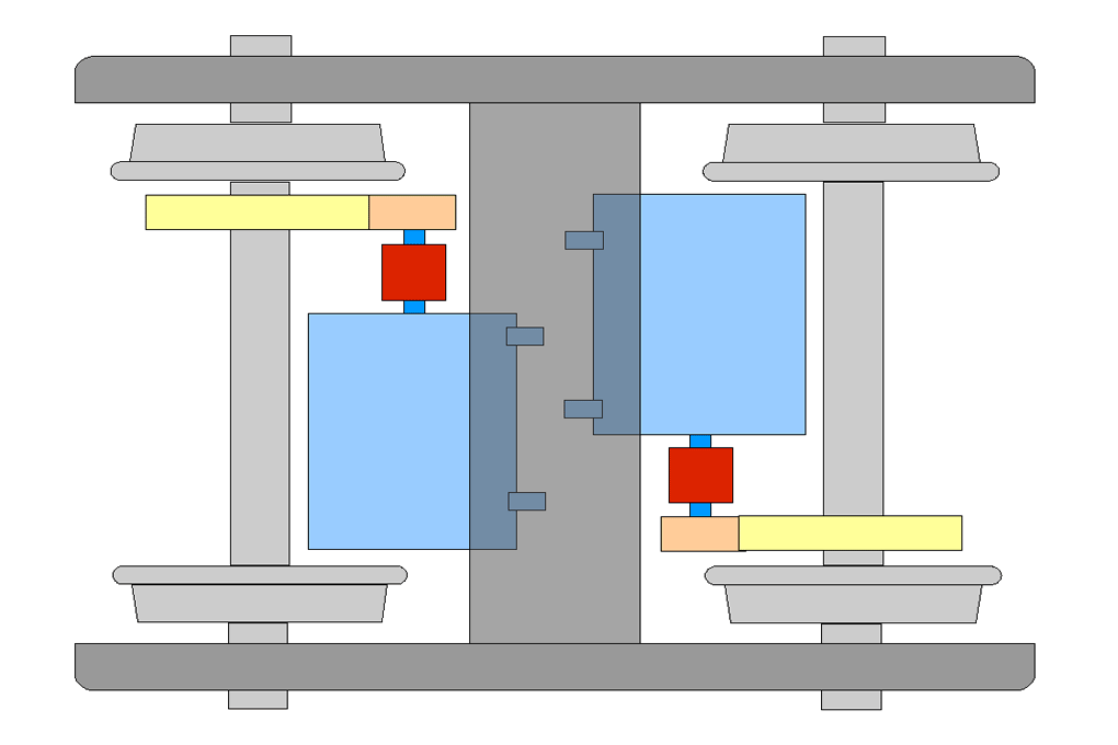 A schematic view of the WN Drive.